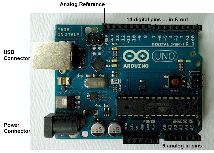 The specially commissioned gold-colored component immediately below the USB connector identifies this printed circuit assembly as an official Arduino UNO, not a clone. This graphic gives names to connection points on the UNO.